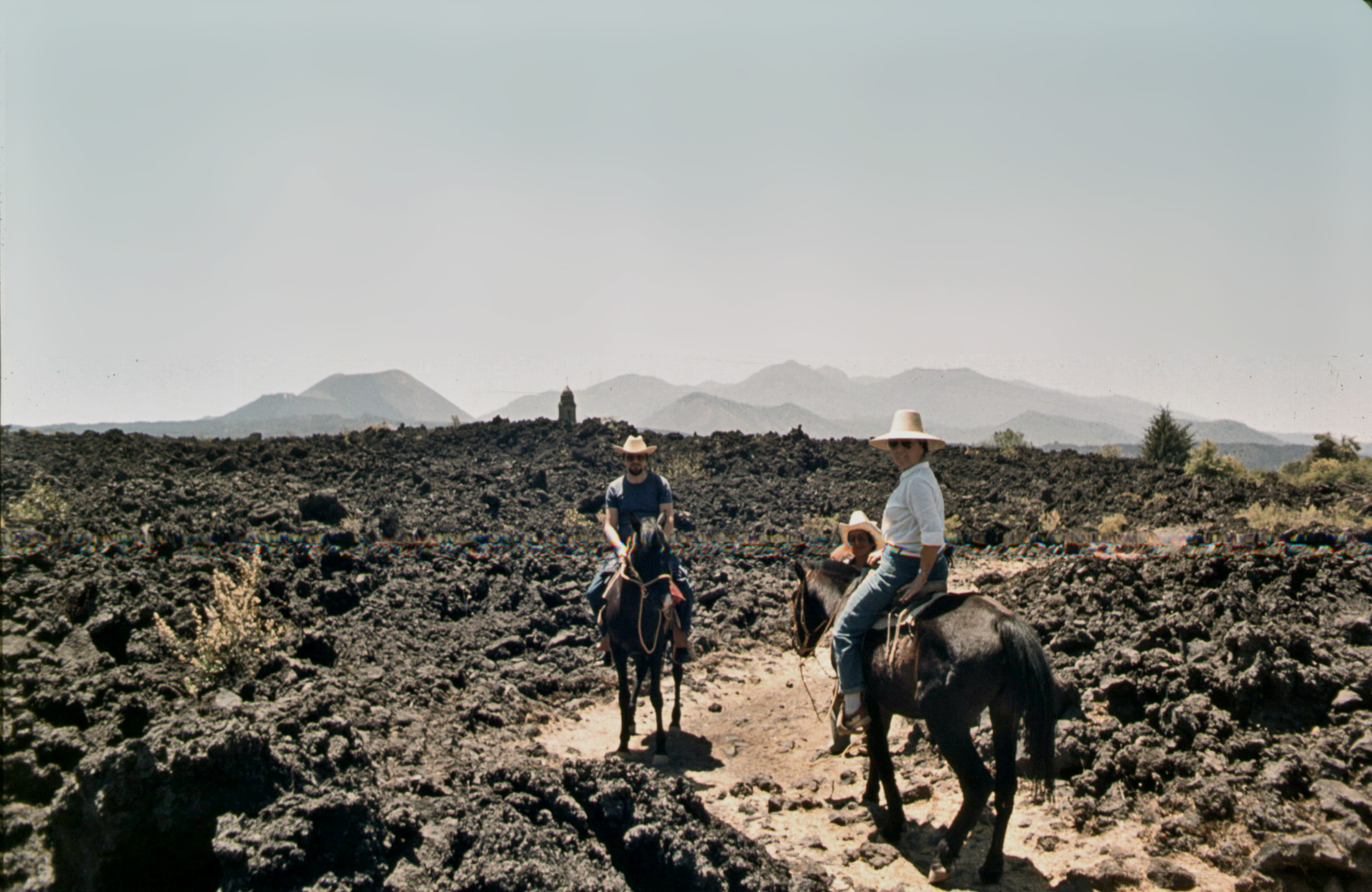 Town site of Paricutín — buried under the volcanic debris of an eruption of Paricutín Volcano, in Michoacán. In the Michoacán-Guanajuato volcanic field. View in April 1981.